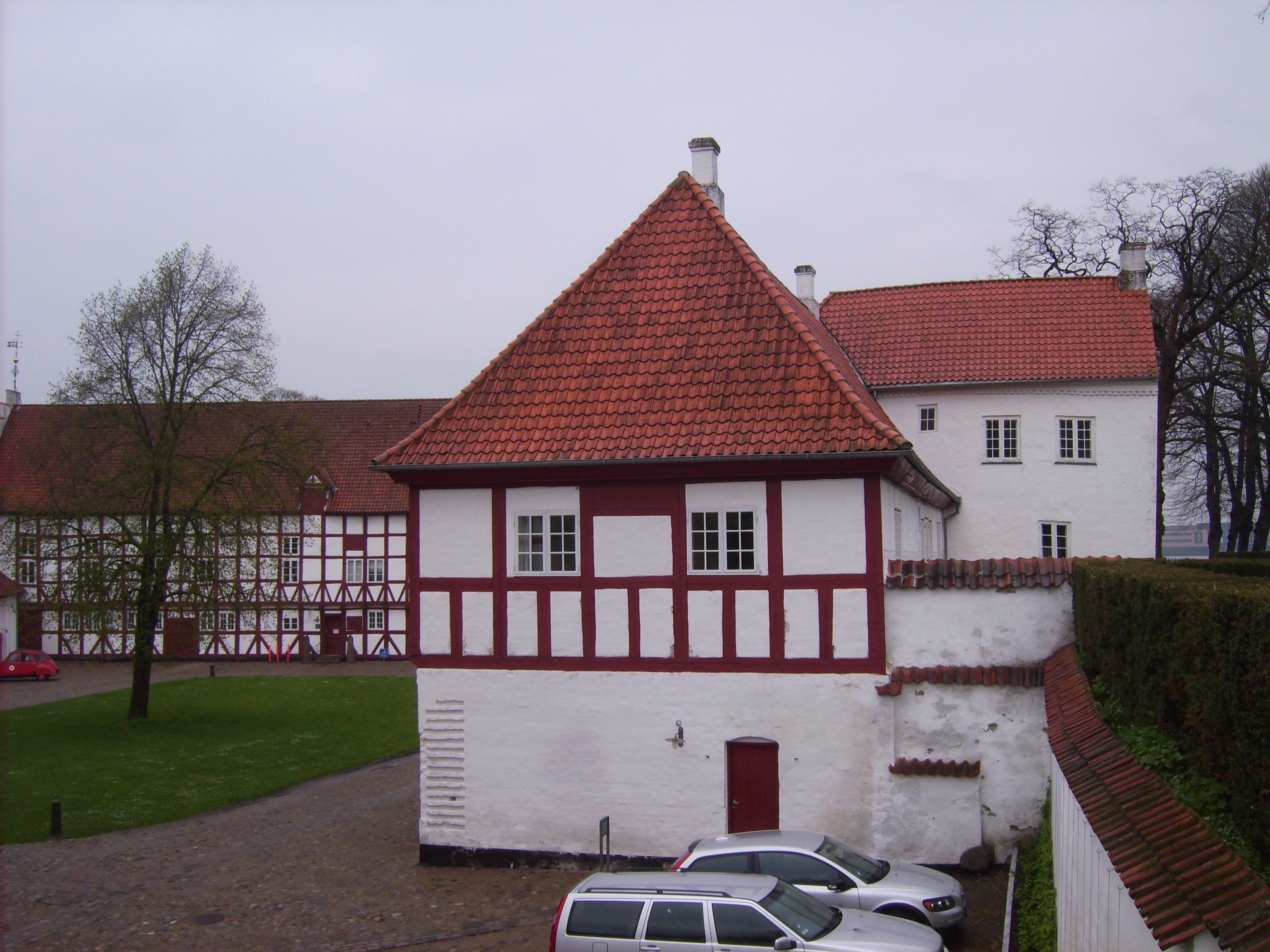 The castle Aalborghus or Aalborghus Slot in Aalborg, Denmark is built 1539-1555.